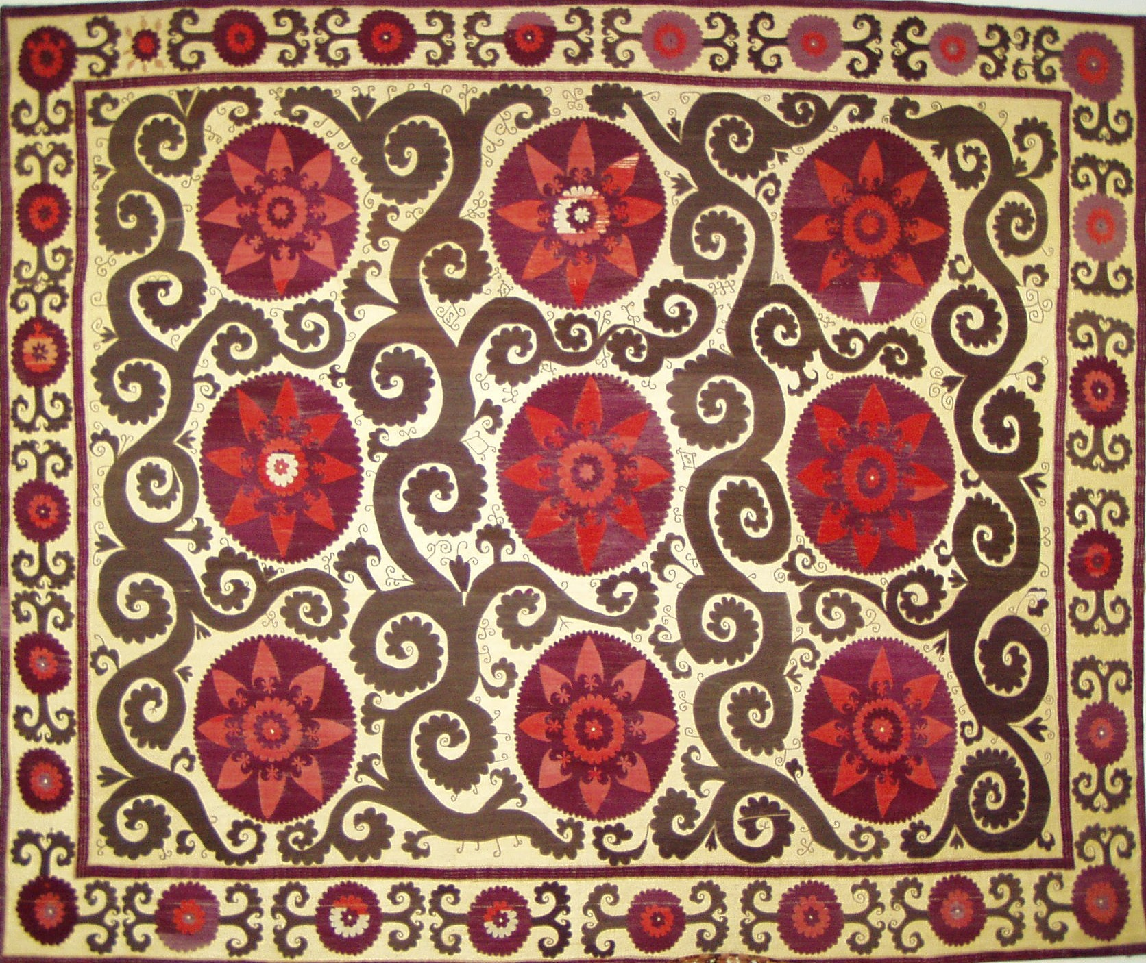 Traditional Susani embroidered wedding textile from Uzbekistan (Museum of Arts in Tashkent)